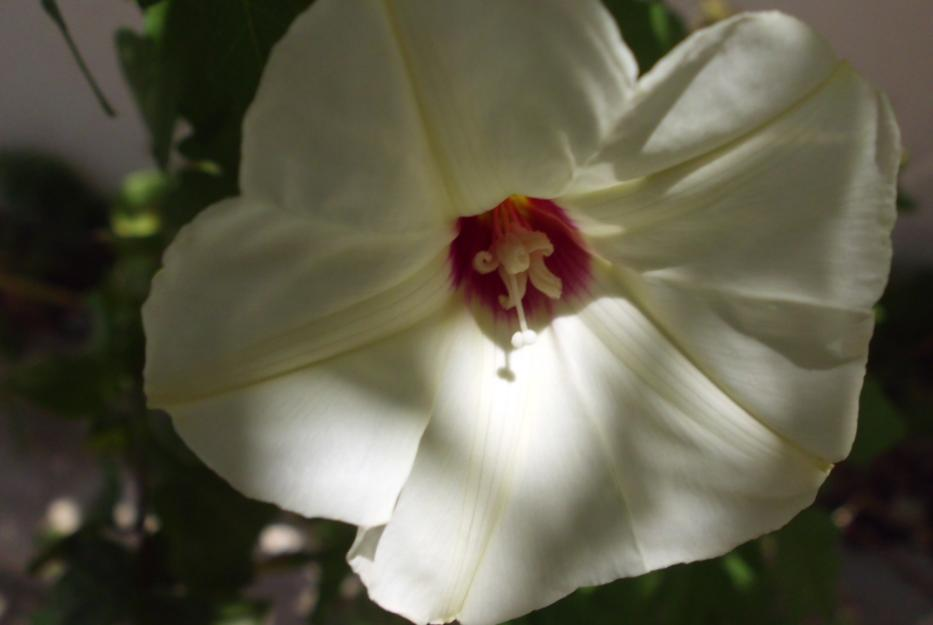 Ipomoea dissecta at Cairo-Egypt